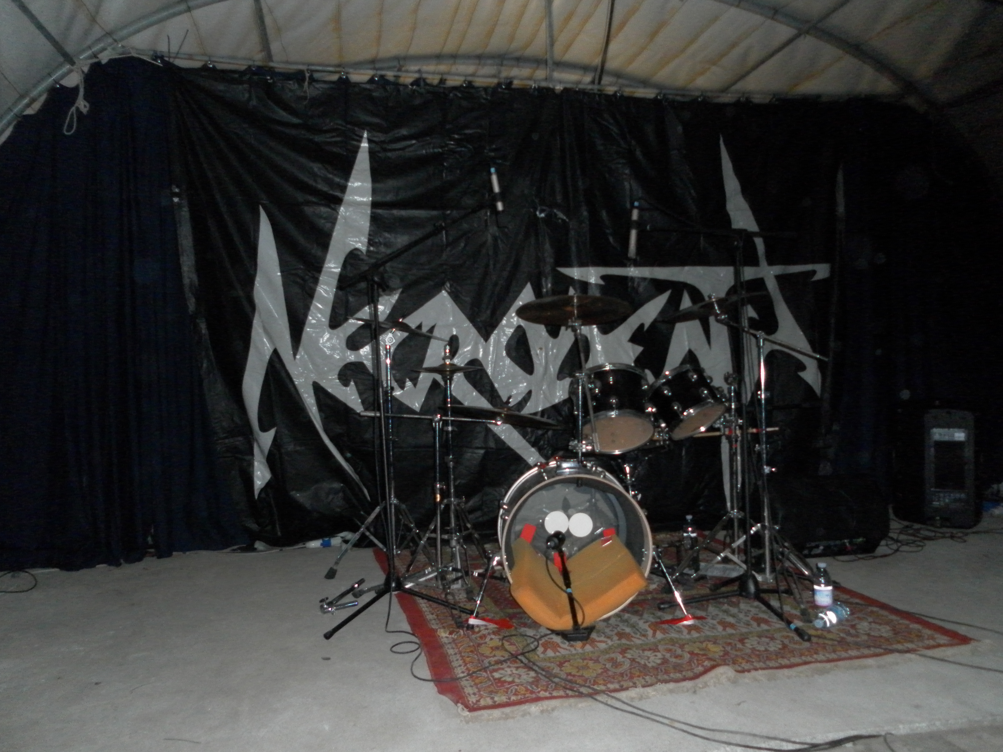 Peso's drums member of italian thrash/black metal NECRODEATH